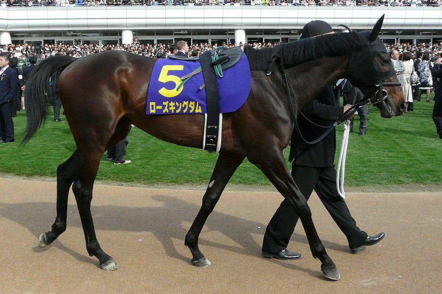 Rose-Kingdom20100418